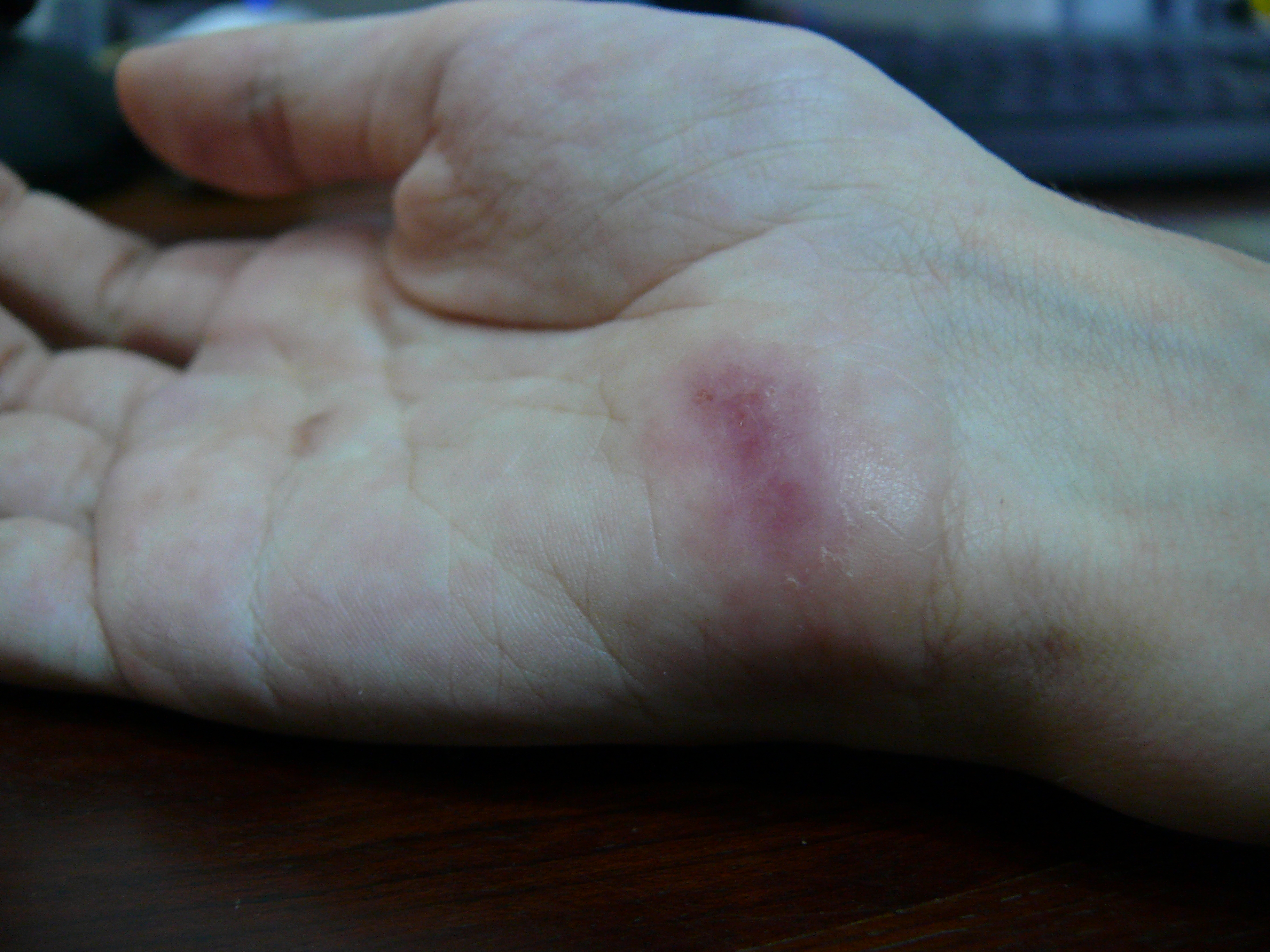 Wound on palm of hand 20 days after falling off a bike onto concrete. Previous photos: Day 1: Image:Wound on palm of hand.jpg Day 2: Image:Wound on palm of hand - day 2.jpg Day 3: Image:Wound on palm of hand - day 3.jpg Day 4: Image:Wound on palm of hand - day 4.jpg Day 5: Image:Wound on palm of hand - day 5.jpg Day 6: Image:Wound on palm of hand - day 6.jpg Day 7: Image:Wound on palm of hand - day 7.jpg Day 8: Image:Wound on palm of hand - day 8.jpg Day 9: Image:Wound on palm of hand - day 9.jpg Day 10: Image:Wound on palm of hand - day 10.jpg Day 11: Image:Wound on palm of hand - day 11.jpg Day 12: Image:Wound on palm of hand - day 12.jpg Day 13: Image:Wound on palm of hand - day 13.jpg Day 14: Image:Wound on palm of hand - day 14.jpg Day 15: Image:Wound on palm of hand - day 15.jpg Day 16: Image:Wound on palm of hand - day 16.jpg Day 17: Image:Wound on palm of hand - day 17.jpg Day 18: Image:Wound on palm of hand - day 18.jpg Day 19: Image:Wound on palm of hand - day 19.jpg